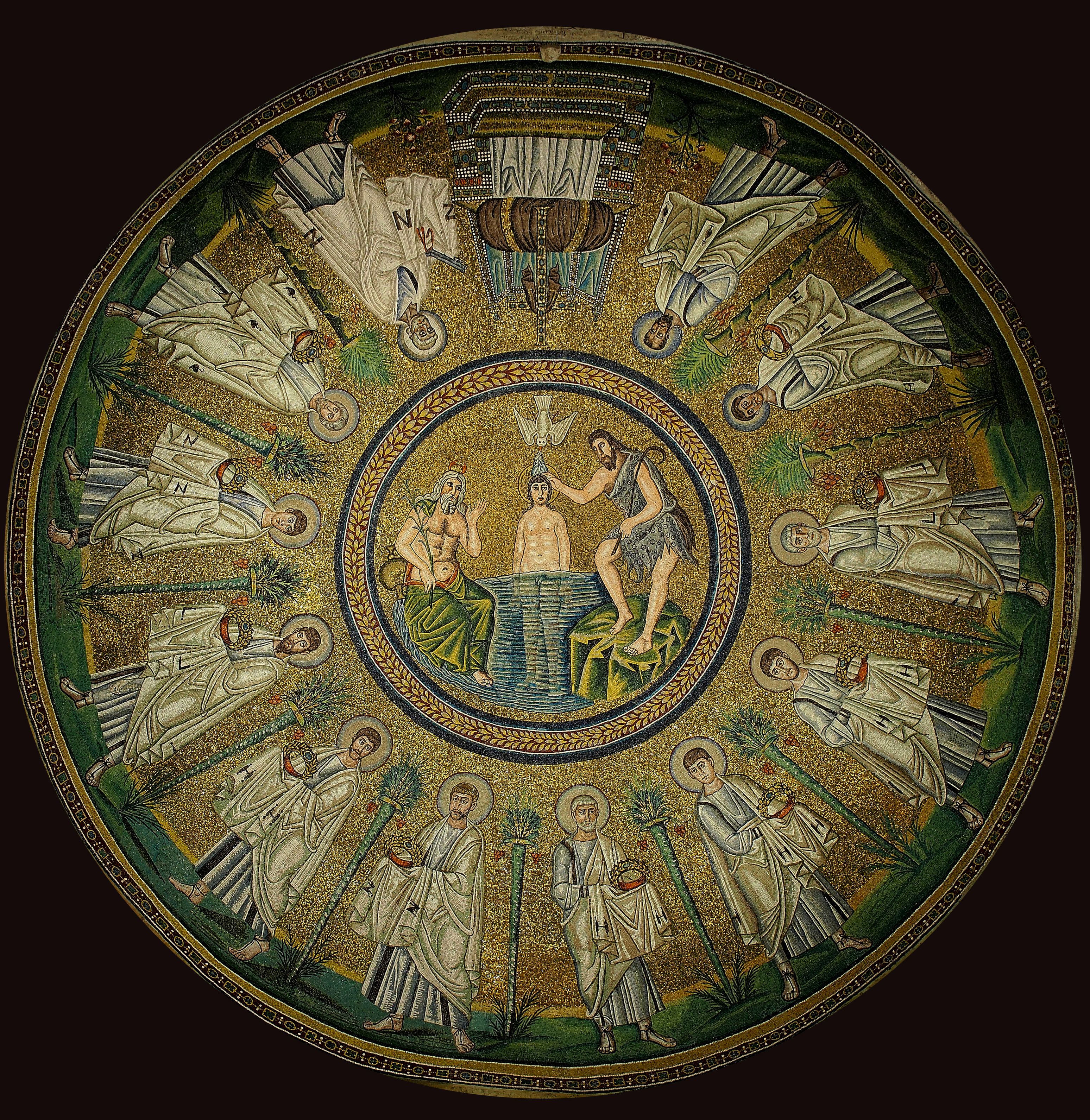 Ceiling mosaic of Arian Baptistry. Built in 5-6 century A.D. by Ostrogothic King Theodoric the Great in Ravenna, Italy. Mosaics are depicting the baptism of Jesus by Saint John the Baptist with procession of the Apostles around. UNESCO World heritage site.